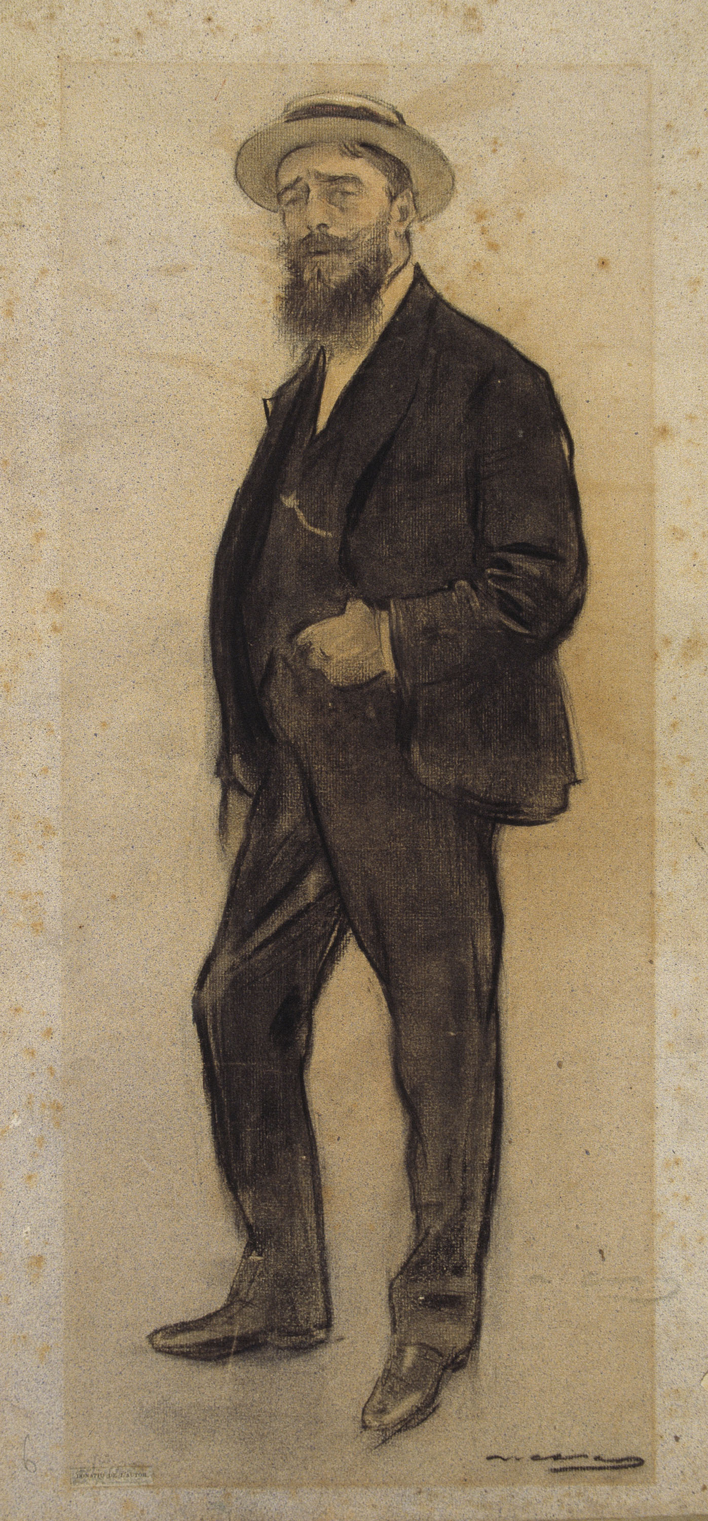 Portrait by Ramon Casas conserved at MNAC in Barcelona. Imagen 023